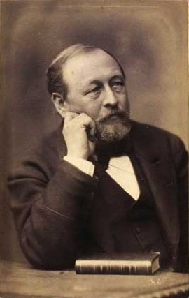 Carl Steen Andersen Bille (1828-1898), Danish editor, politician, businessman, diplomat, jurist, and civil servant, MP